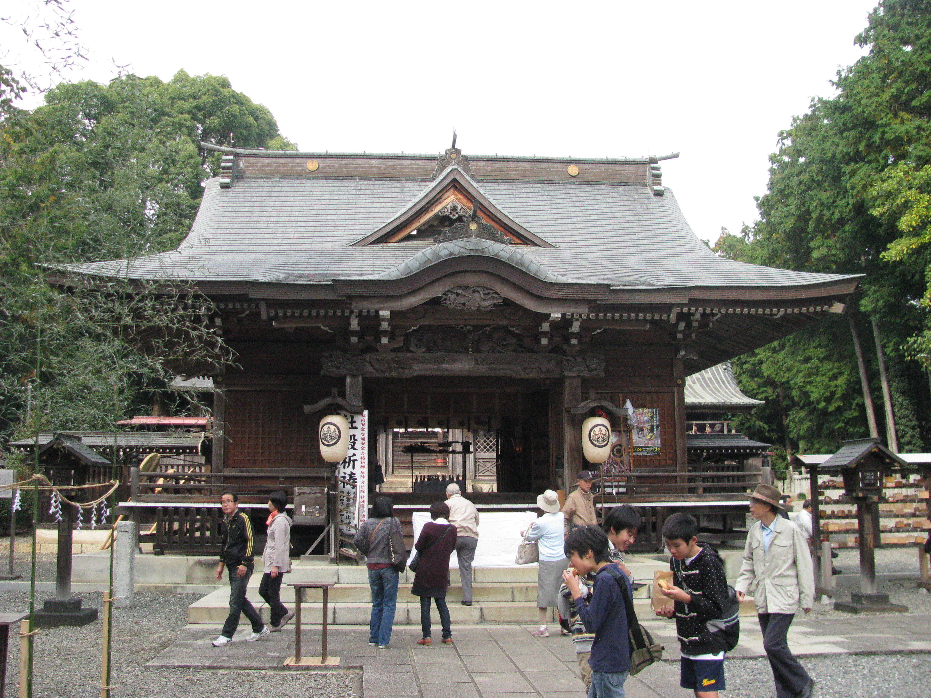 Izumo Iwai Shrine in Moroyama town, Saitama pref., Japan